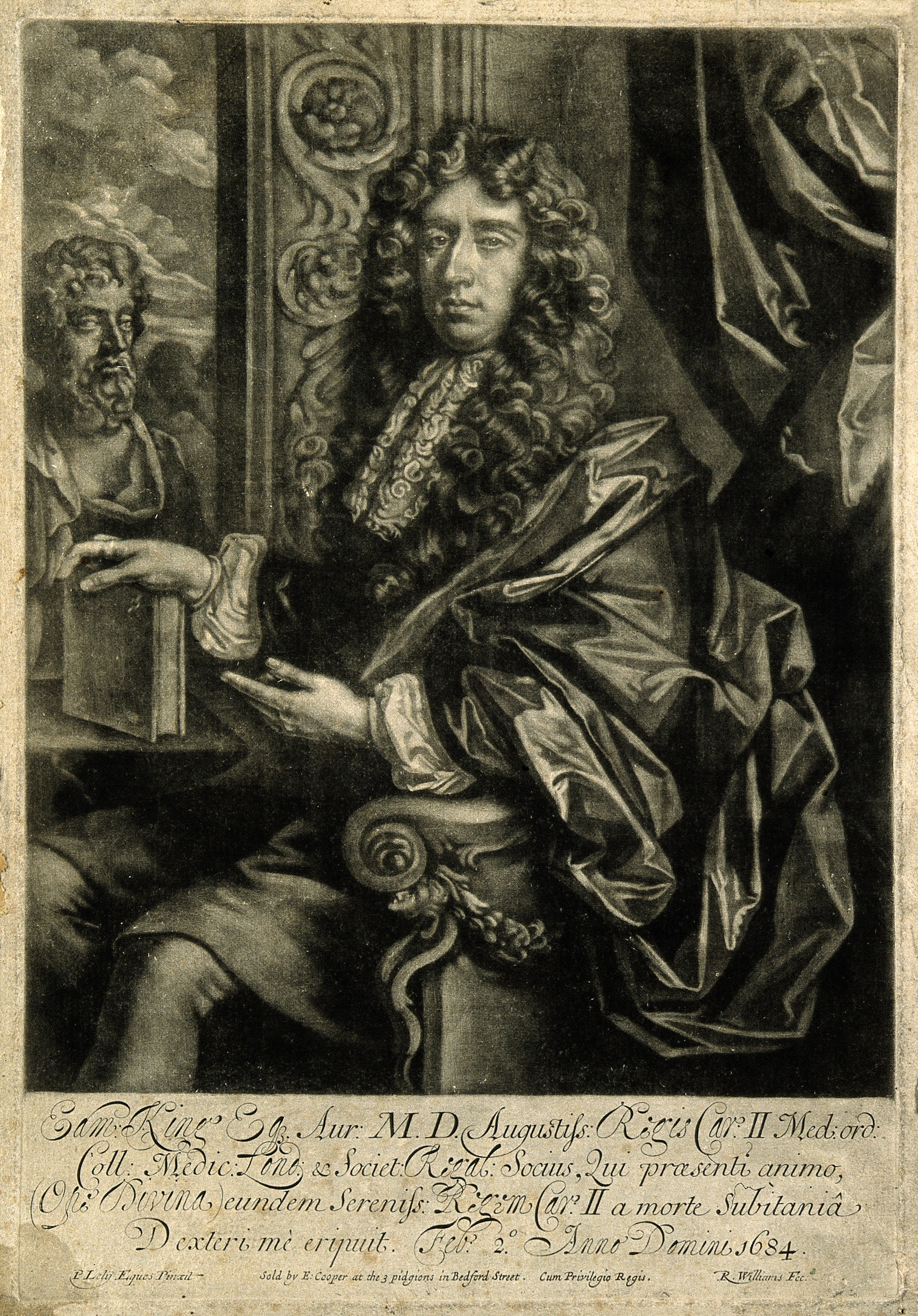 Sir Edmund King. Mezzotint by R. Williams, 1684, after Sir P. Lely, 1680. Iconographic Collections Keywords: portrait prints; Edmund King; mezzotints; Peter Lely; R. Williams